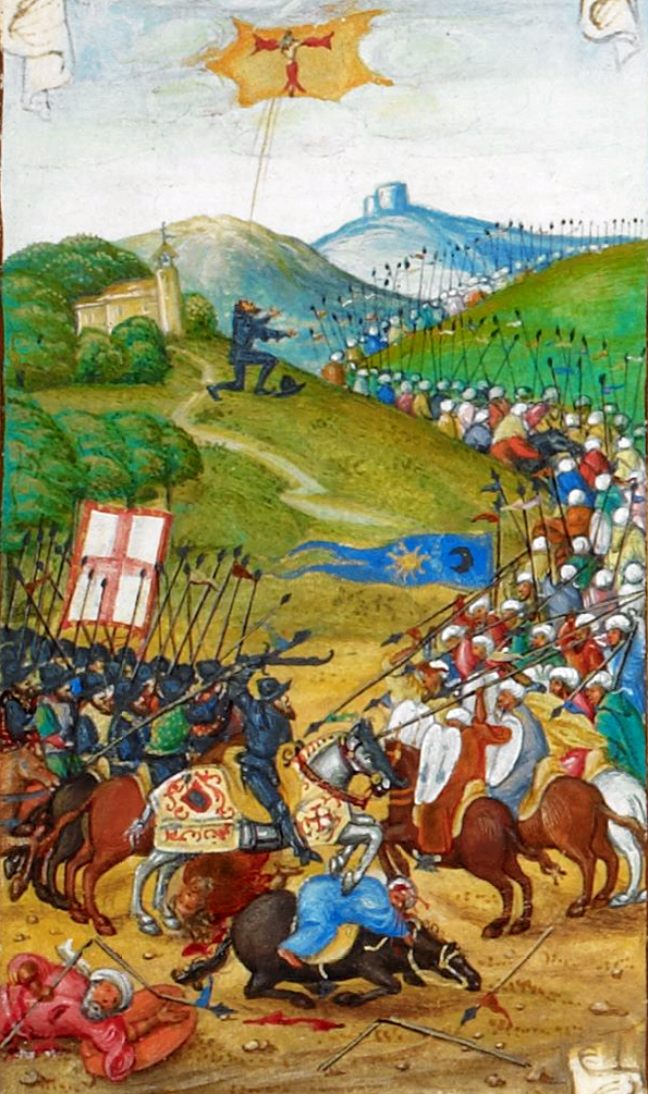 Battle-of-Ourique.png.